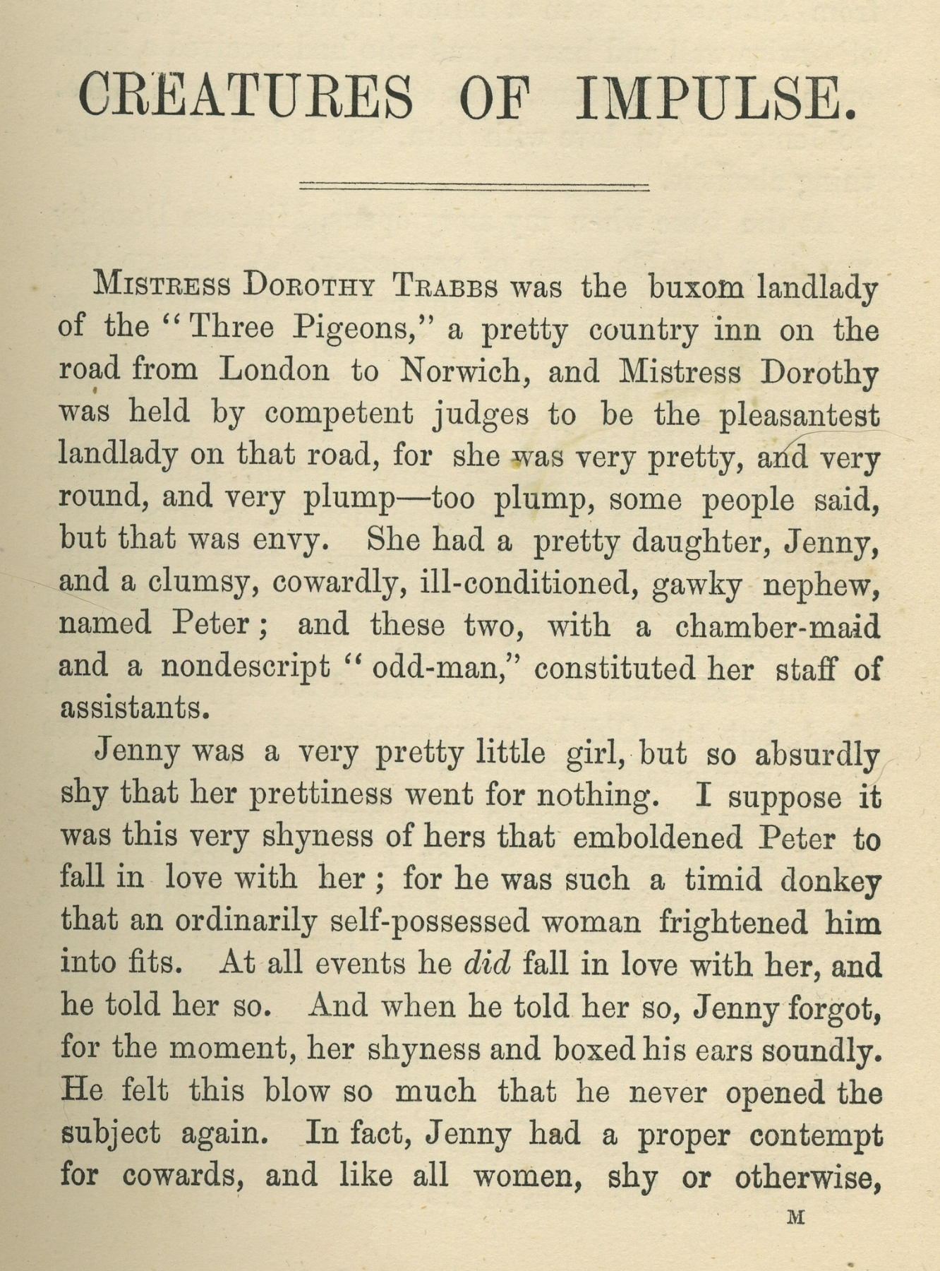 The first page of Creatures of Impulse, as reprinted in W. S. Gilbert's Foggerty's Fairy and Other Tales (1890) This media file is in the public domain in the United States. This applies to U.S. works where the copyright has expired, often because its first publication occurred prior to January 1, 1923. See this page for further explanation. This image might not be in the public domain outside of the United States; this especially applies in the countries and areas that do not apply the rule of the shorter term for US works, such as Canada, Mainland China (not Hong Kong or Macao), Germany, Mexico, and Switzerland. The creator and year of publication are essential information and must be provided. See Wikipedia:Public domain and Wikipedia:Copyrights for more details.